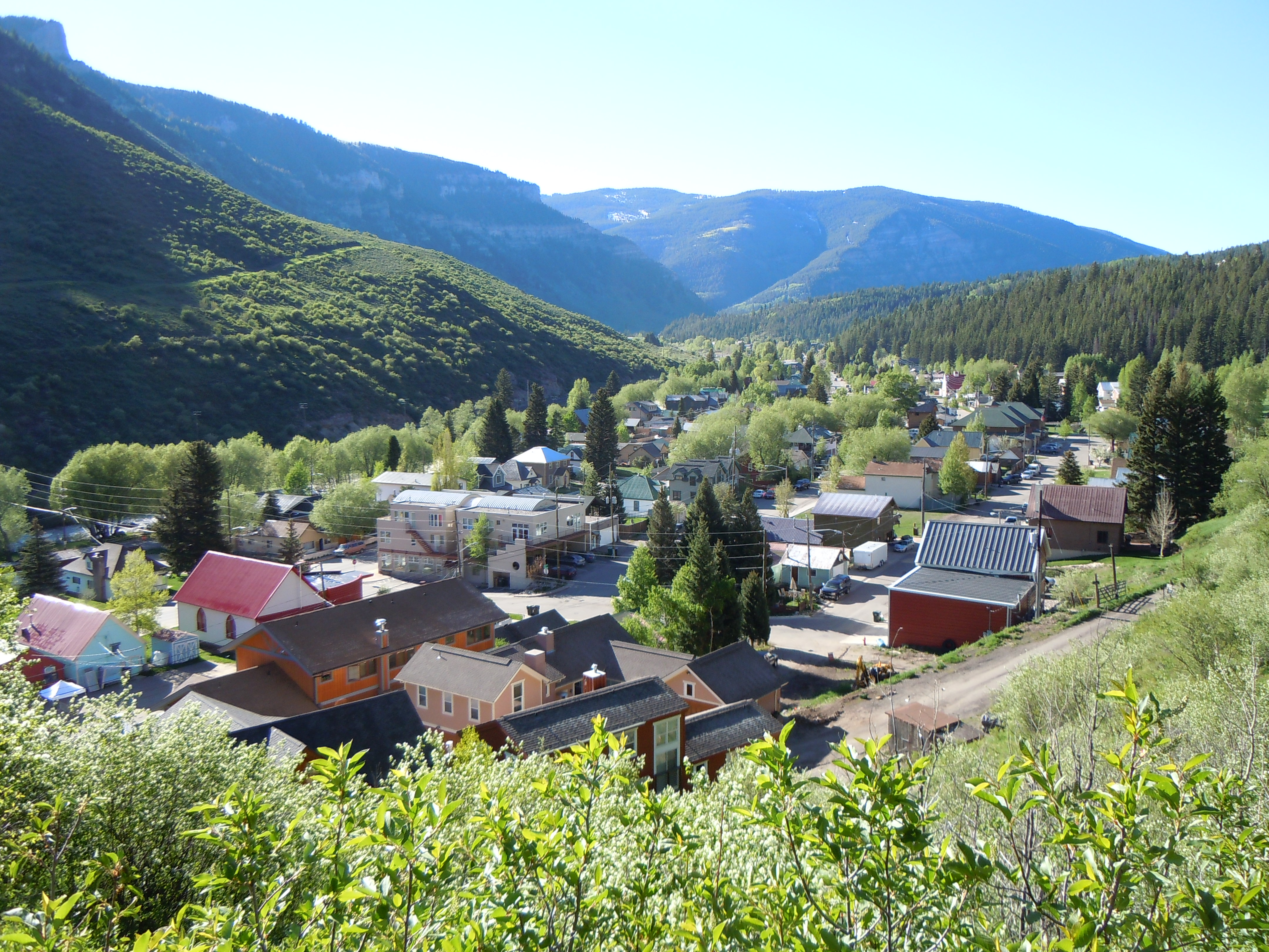 Small town nestled in the heart of the Colorado Rockies.